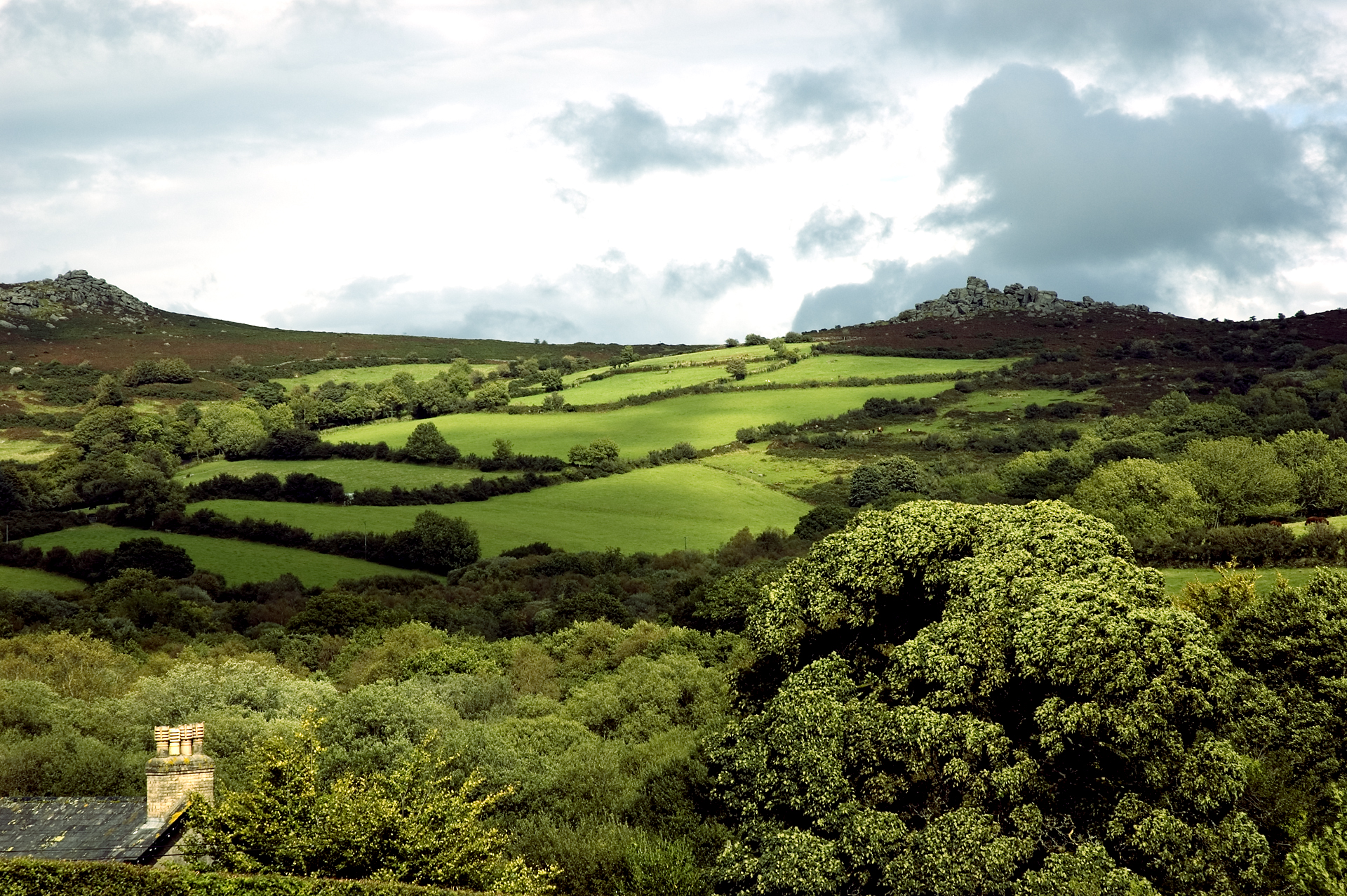 Widecombe in the Moor, England.Widecombe in the Moor, England